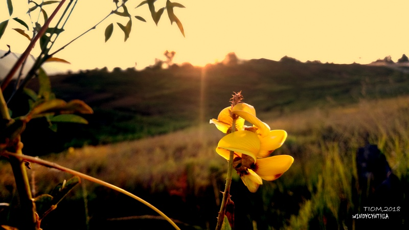 Perpaduan antara bunga,Rumput saat matahari terbenam